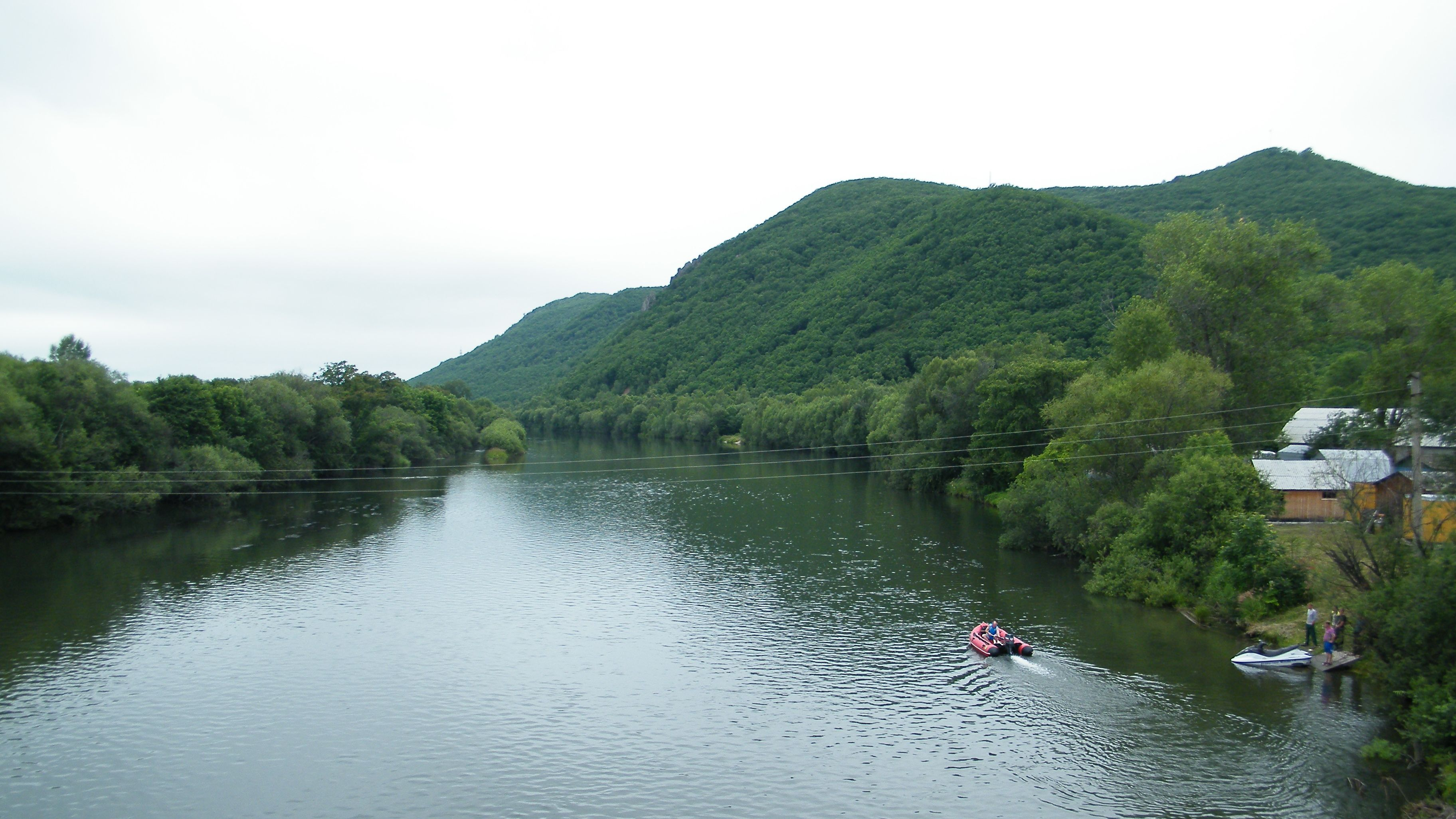 Река Уссури под Чугуевкой